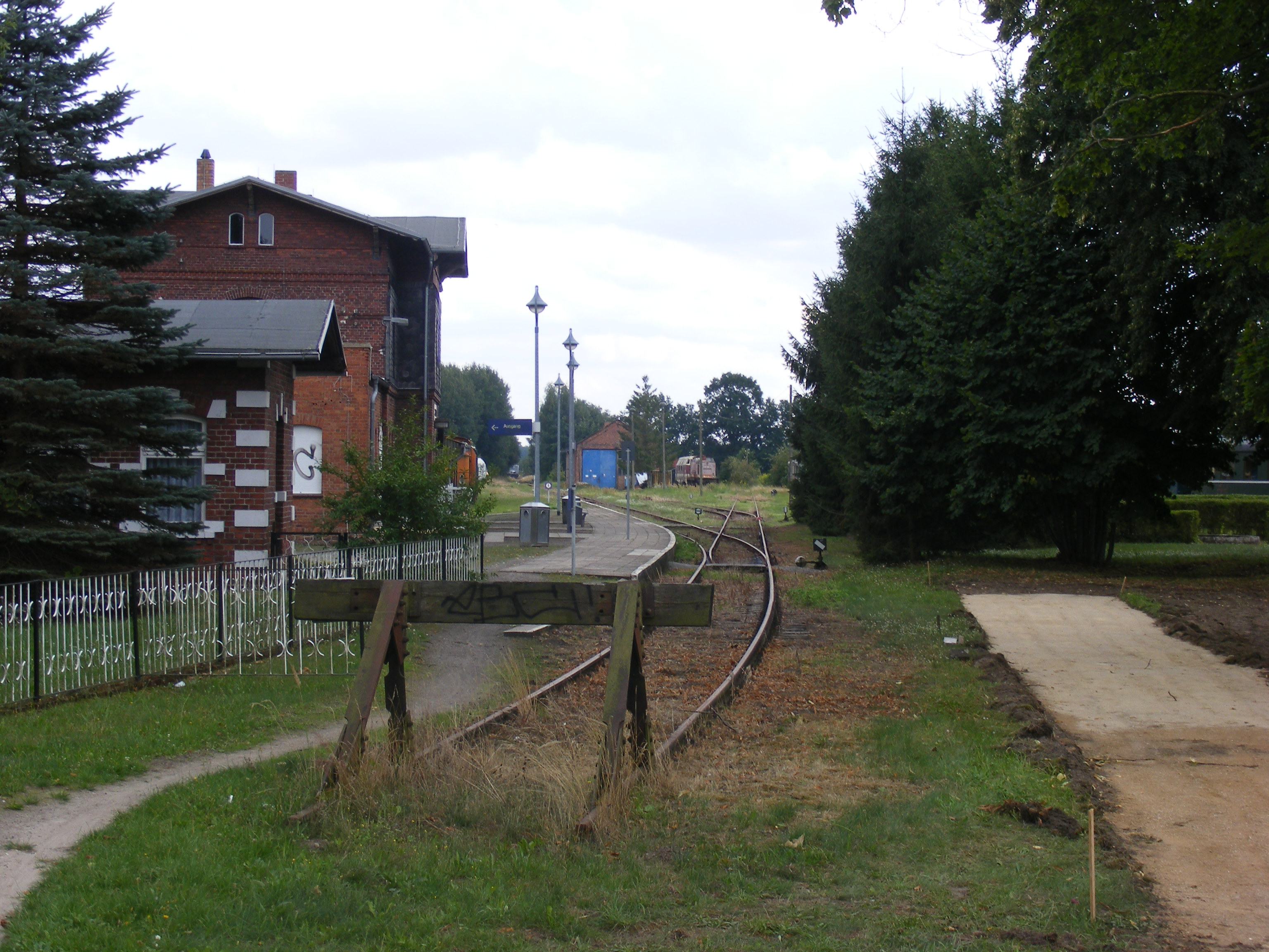 Putlitz railway station. Brandenburg, Germany